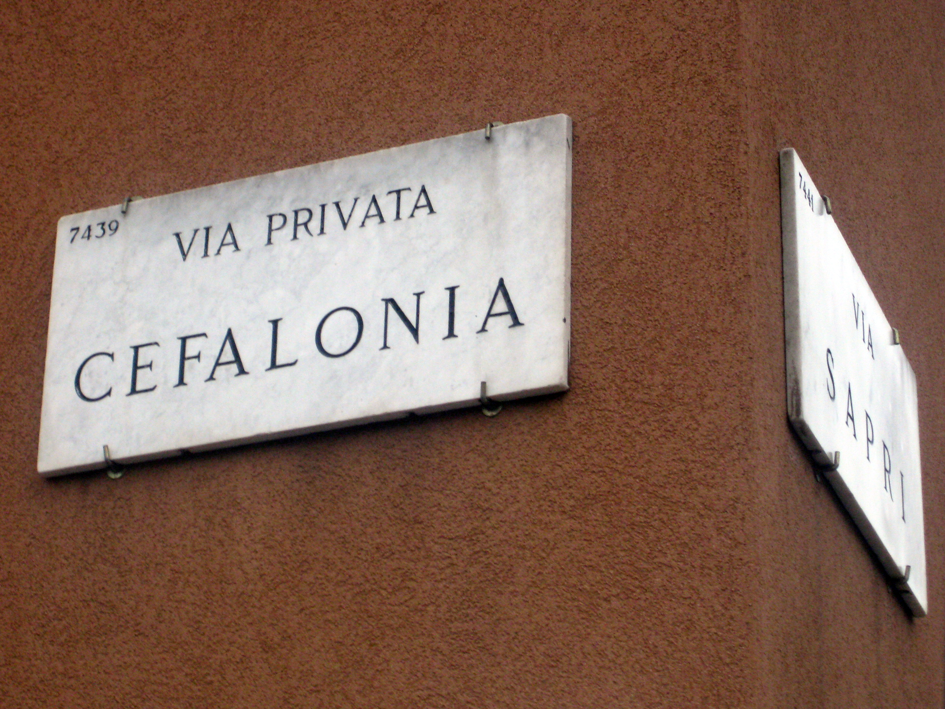 Via Cefalonia in Milano